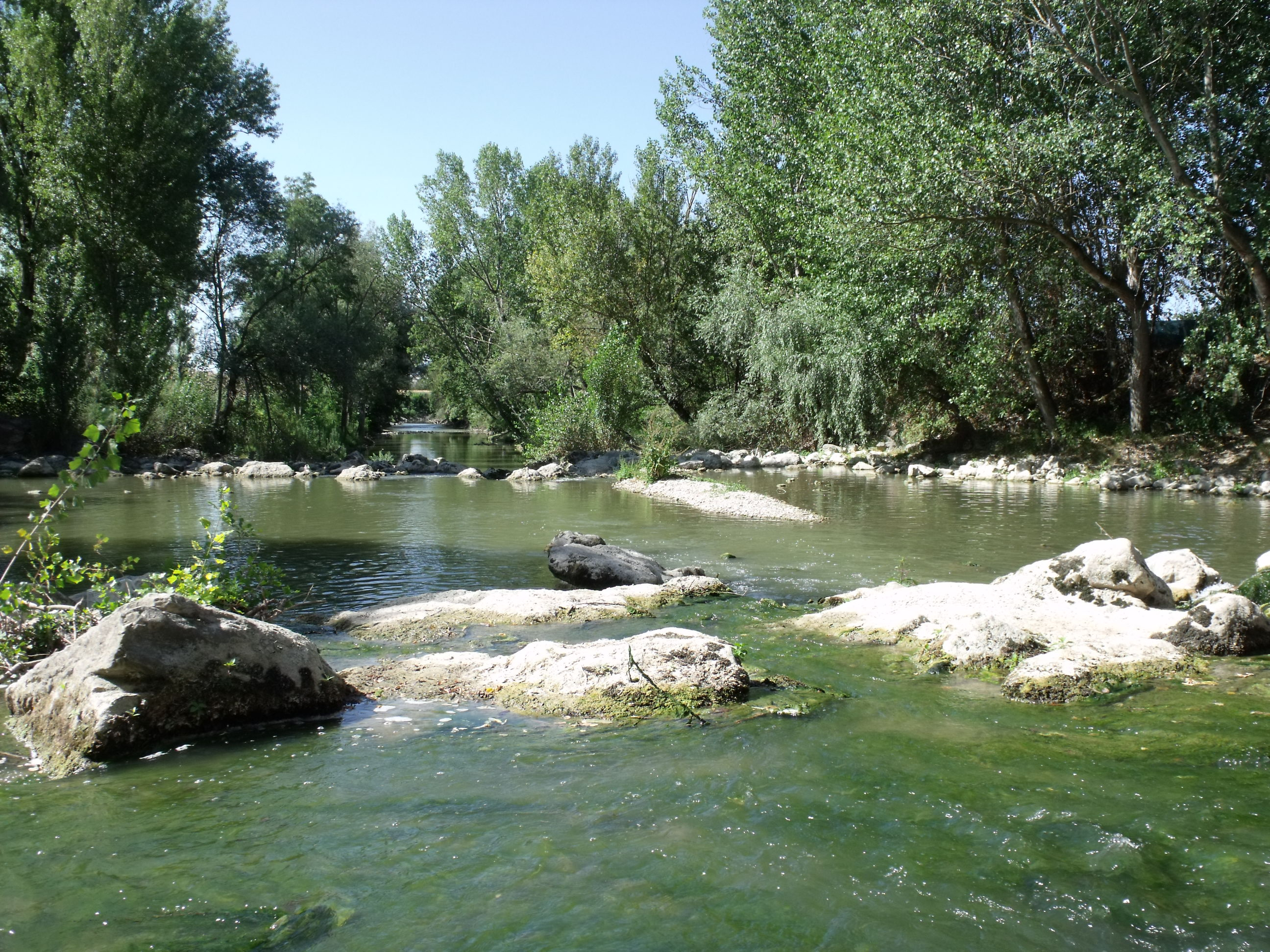 The Chiascio river in Bastia Umbra, Province of Perugia, Umbria, Italy